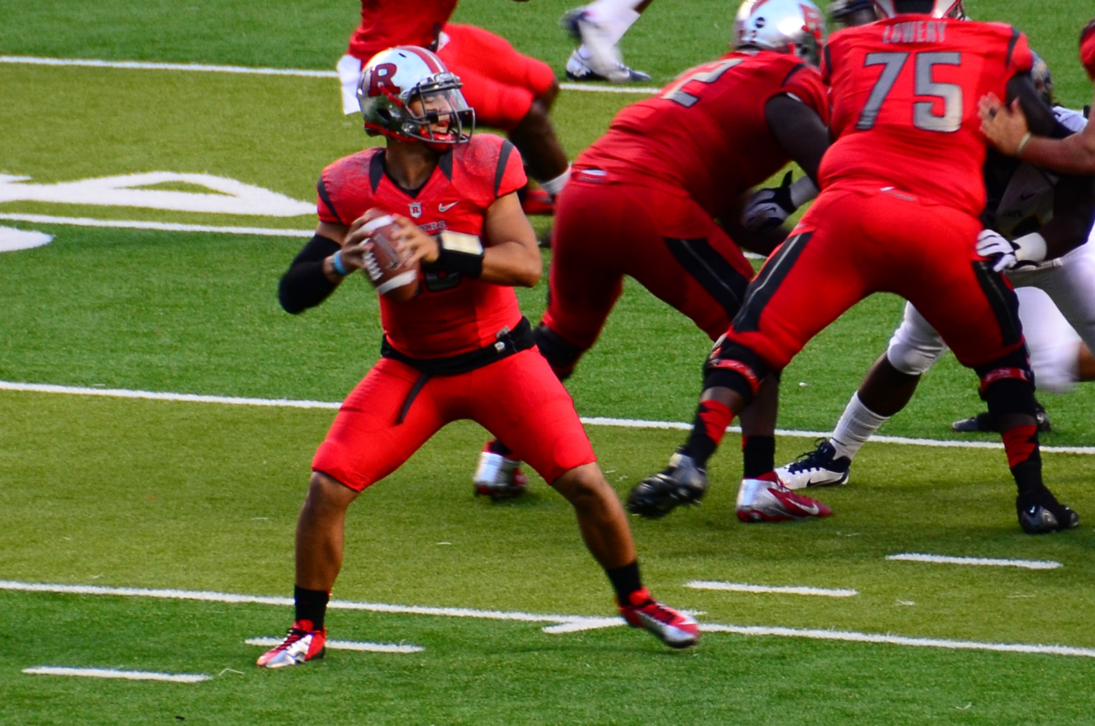 Gary Nova playing with Rutgers in 2012.